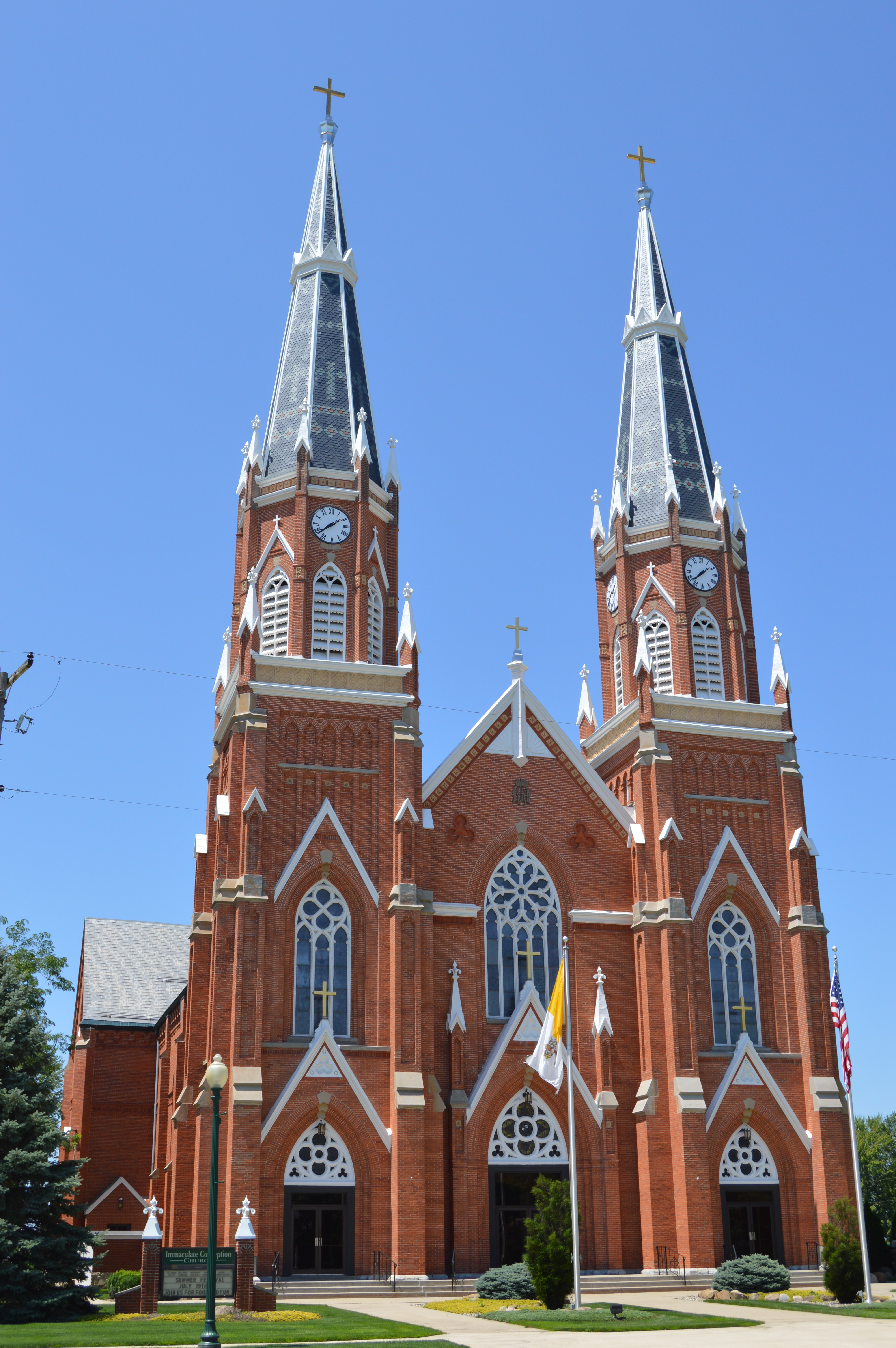 Front of Immaculate Conception Catholic Church, located at 189 Church Street in Ottoville, Ohio, United States. It was built in 1885.